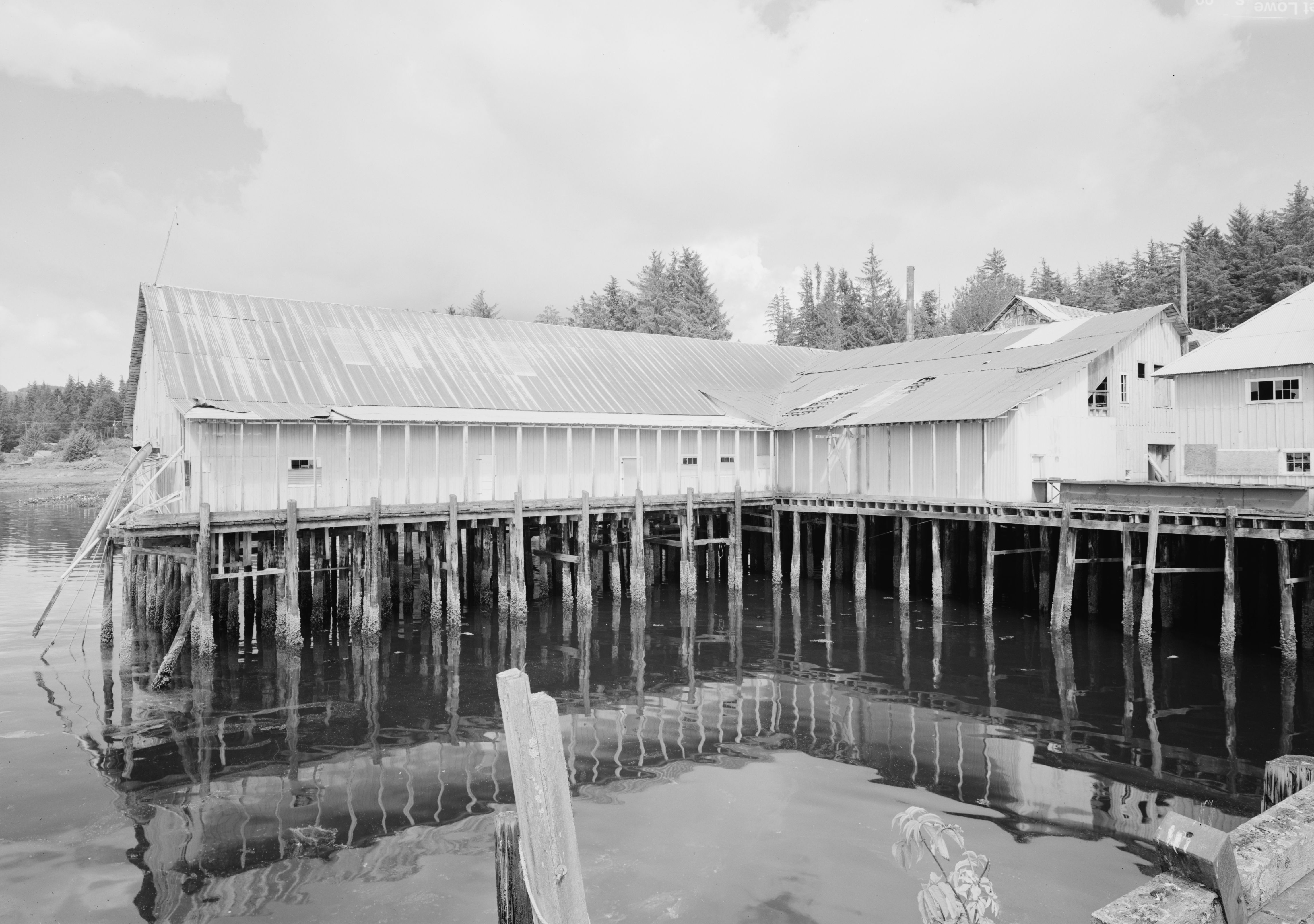 Kake Salmon Cannery, 540 Keku Road, Kake (Wrangell-Petersburg Census Area, Alaska)(cropped)